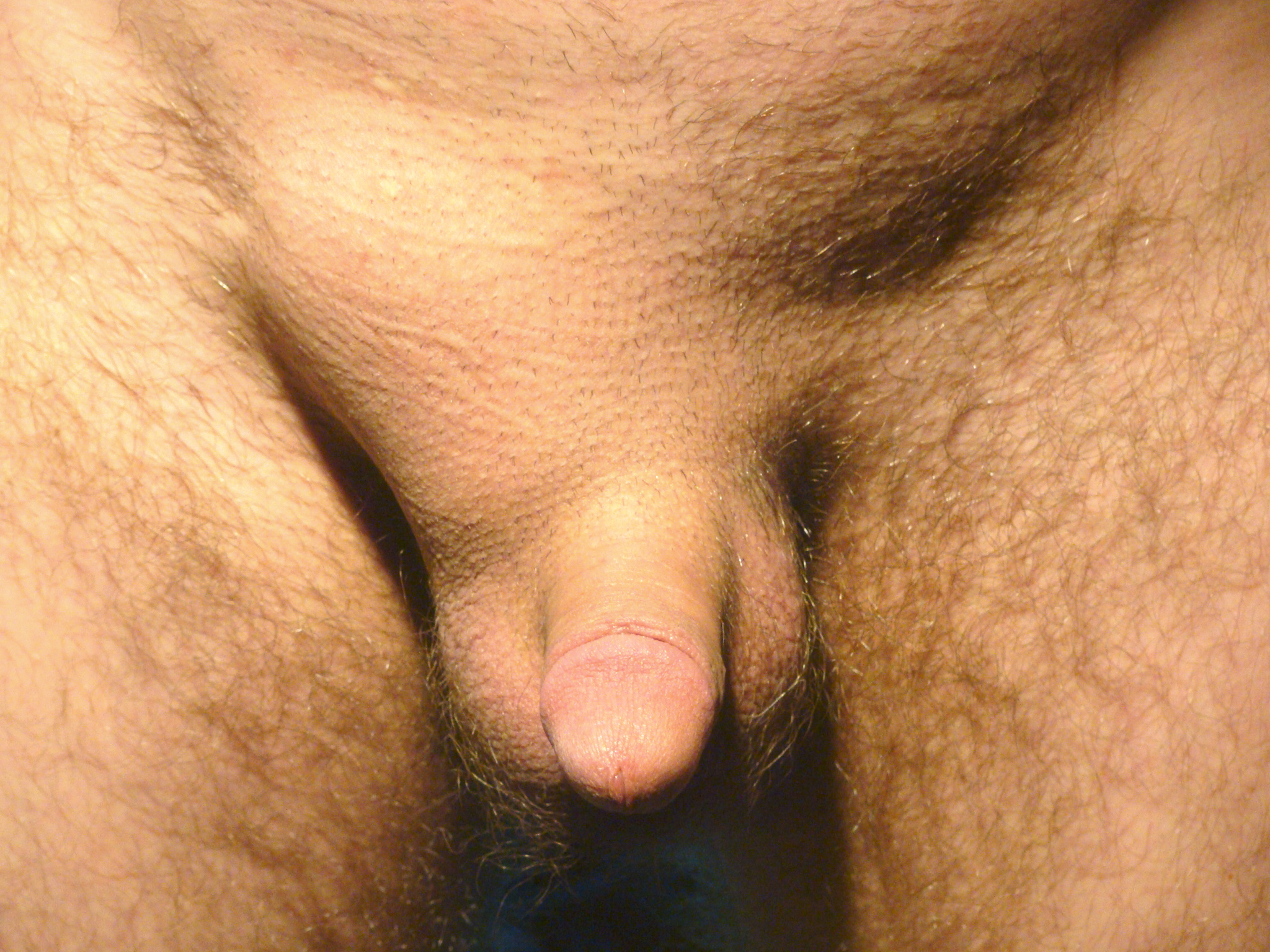 Frontal view of inguinal hernia. Area shaved prior to hospitalisation and surgical repair procedure.